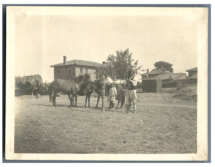 Sakulevo